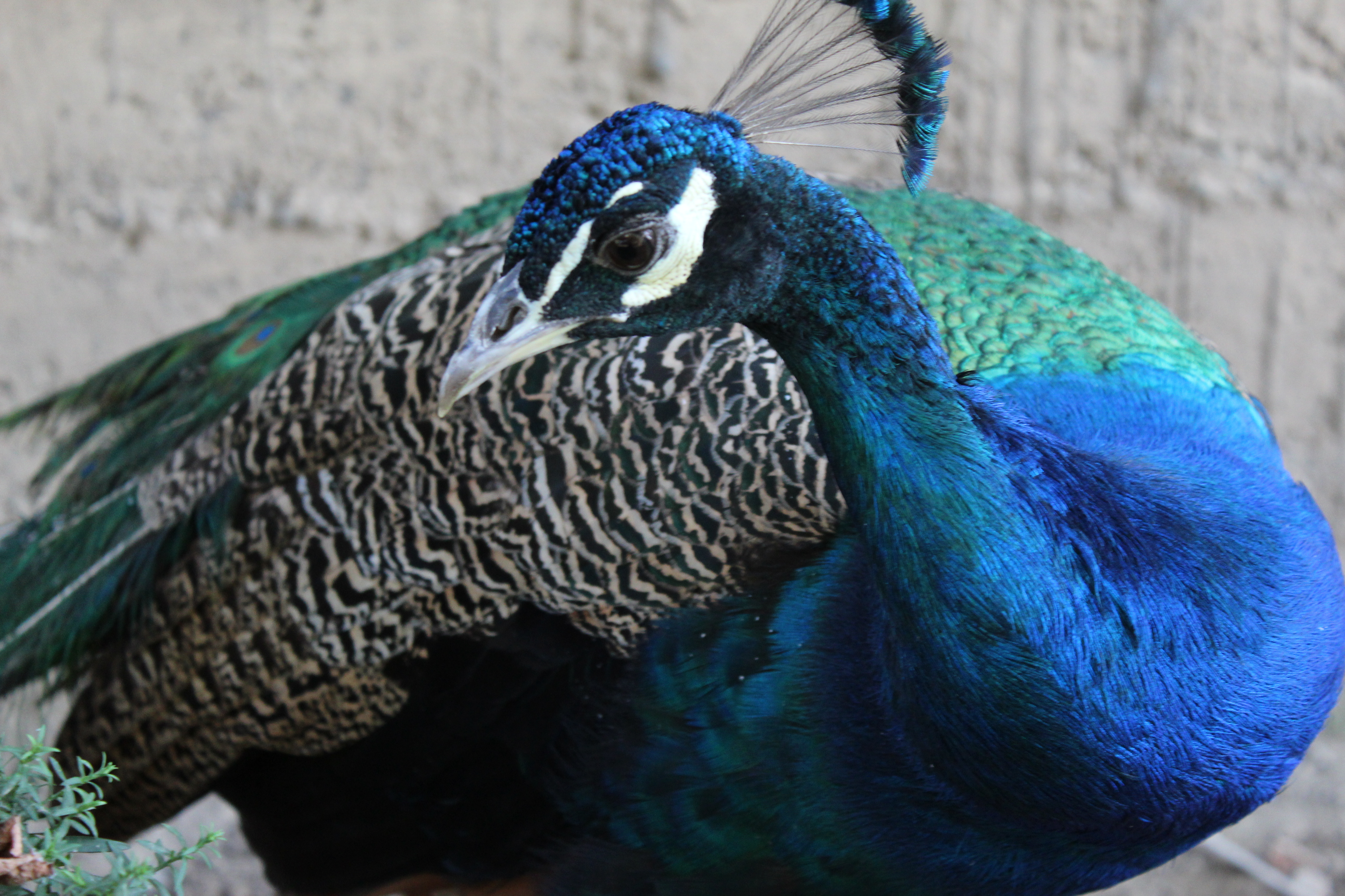 3-years-old Indian peafowl in Croatia